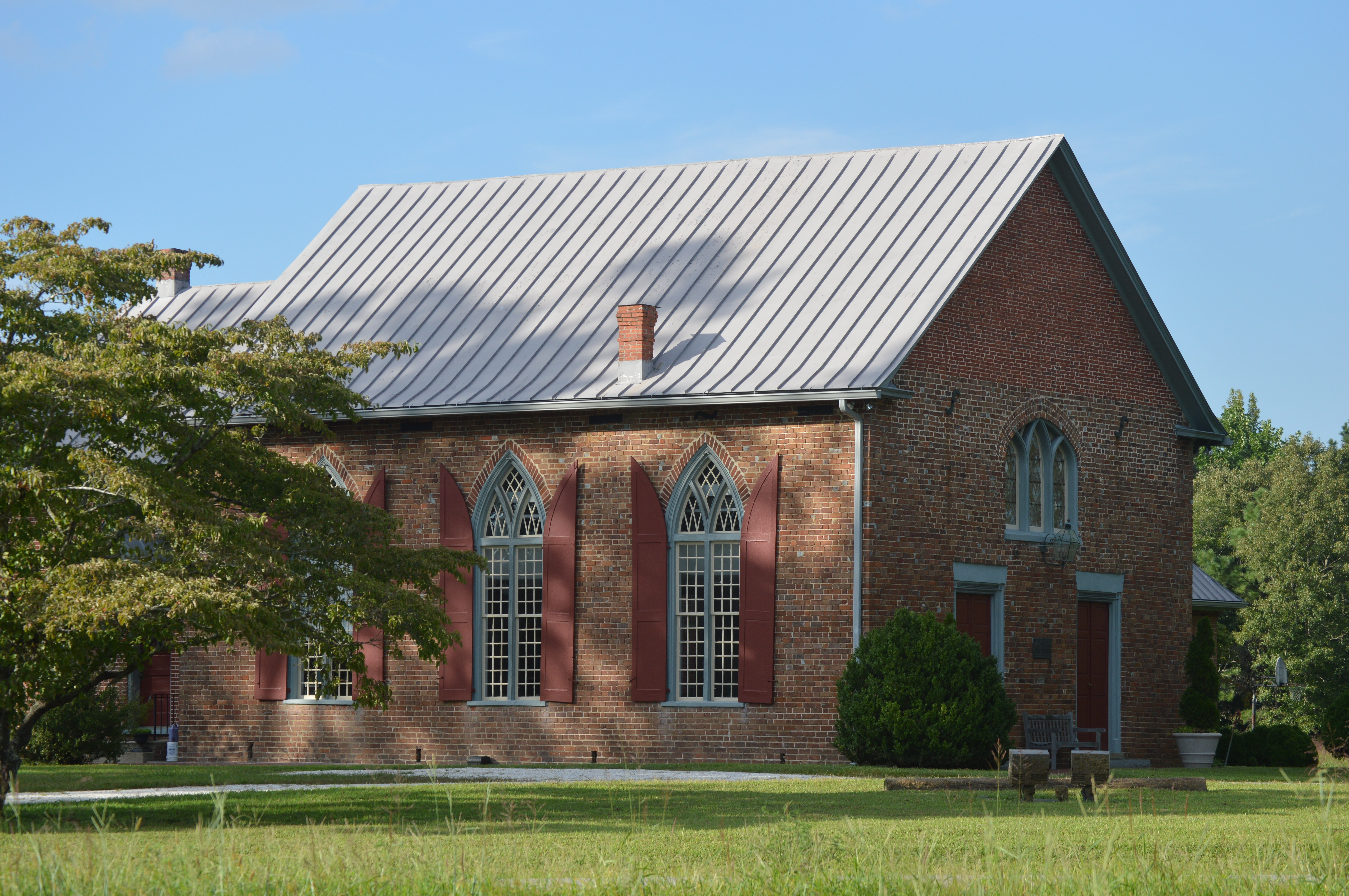 Front and southwestern side of St. Paul's Episcopal Church (built 1859), located on the northern (Essex County) side of U.S. Route 360 west of the post office at Millers Tavern, Virginia, United States. It is a component of the Millers Tavern Rural Historic District, a historic district listed on the National Register of Historic Places that embraces several square miles in the area.